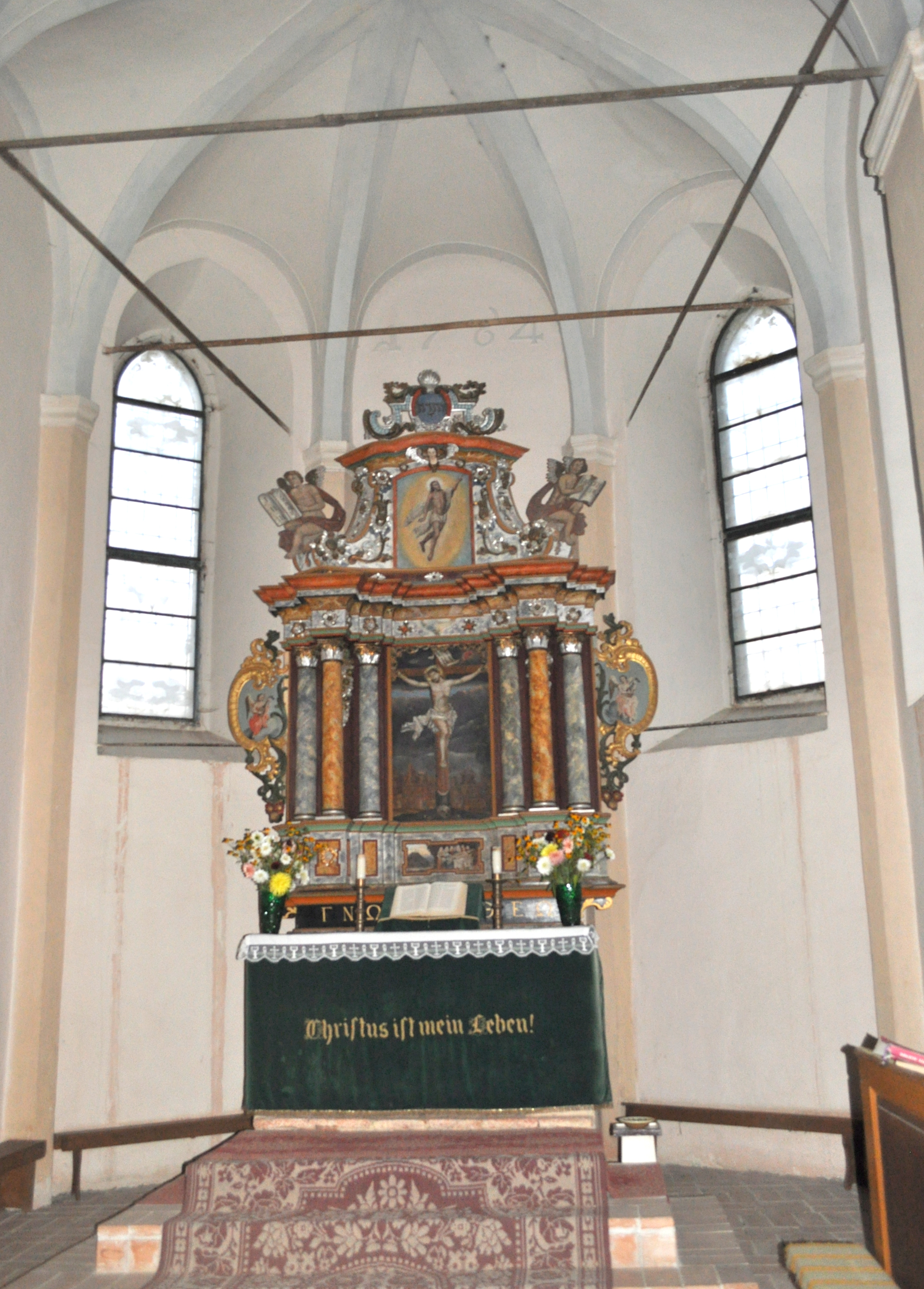 Lutheran church in Cisnădioara, Sibiu countyRomână: Biserica evanghelică din Cisnădioara, județul Sibiu